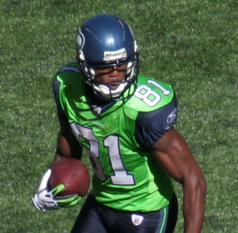 Nate Burleson runs with the ball. Two Chicago Bears defenders are after him: #55 Lance Briggs and #33 Charles Tillman.